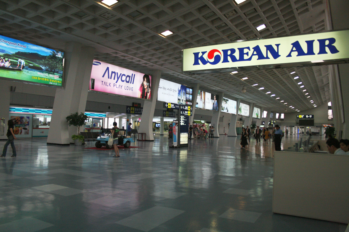 Departing hall in Gimpo Airport